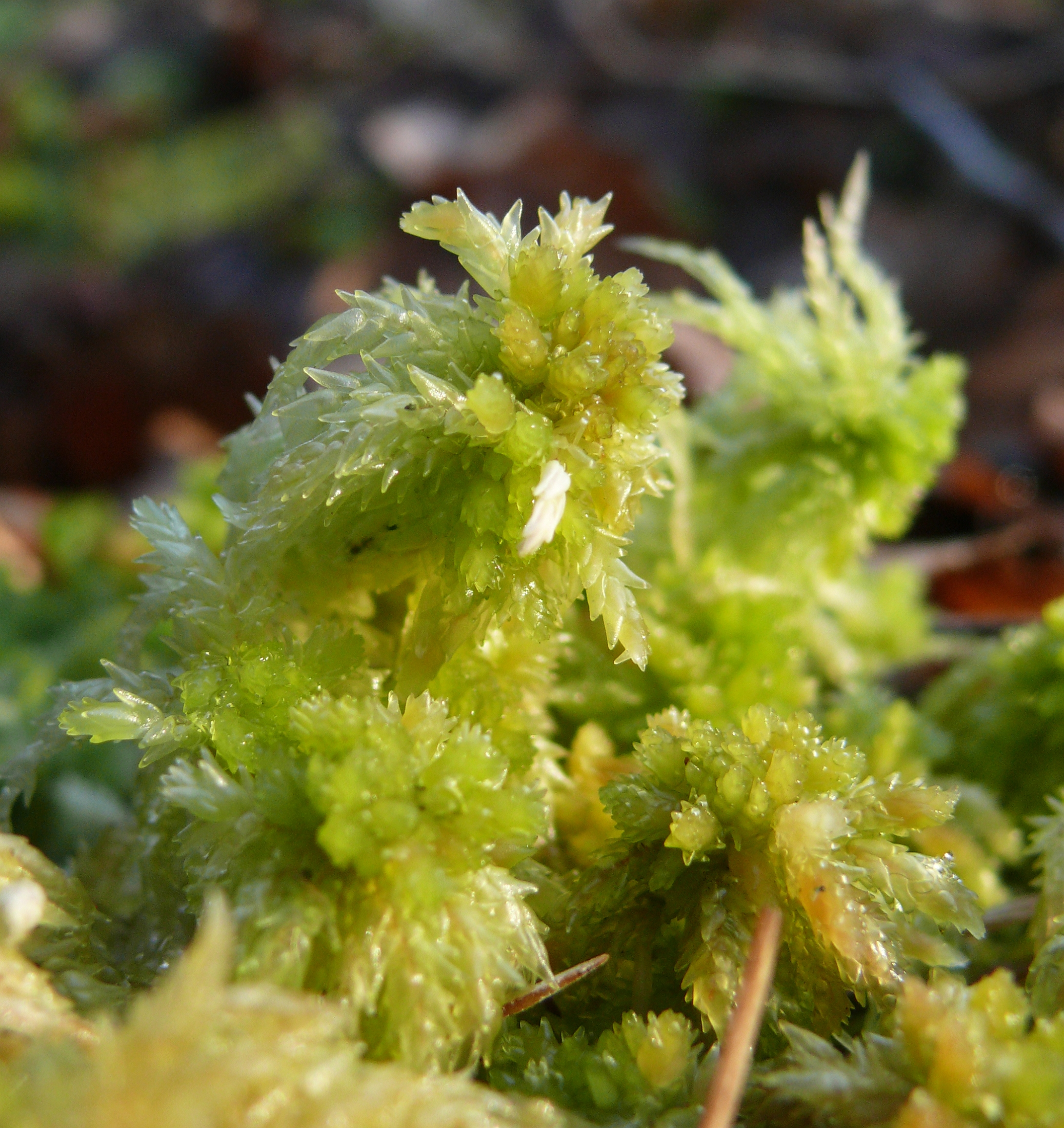 Sphagnum palustre, Hohenlohe, Germany